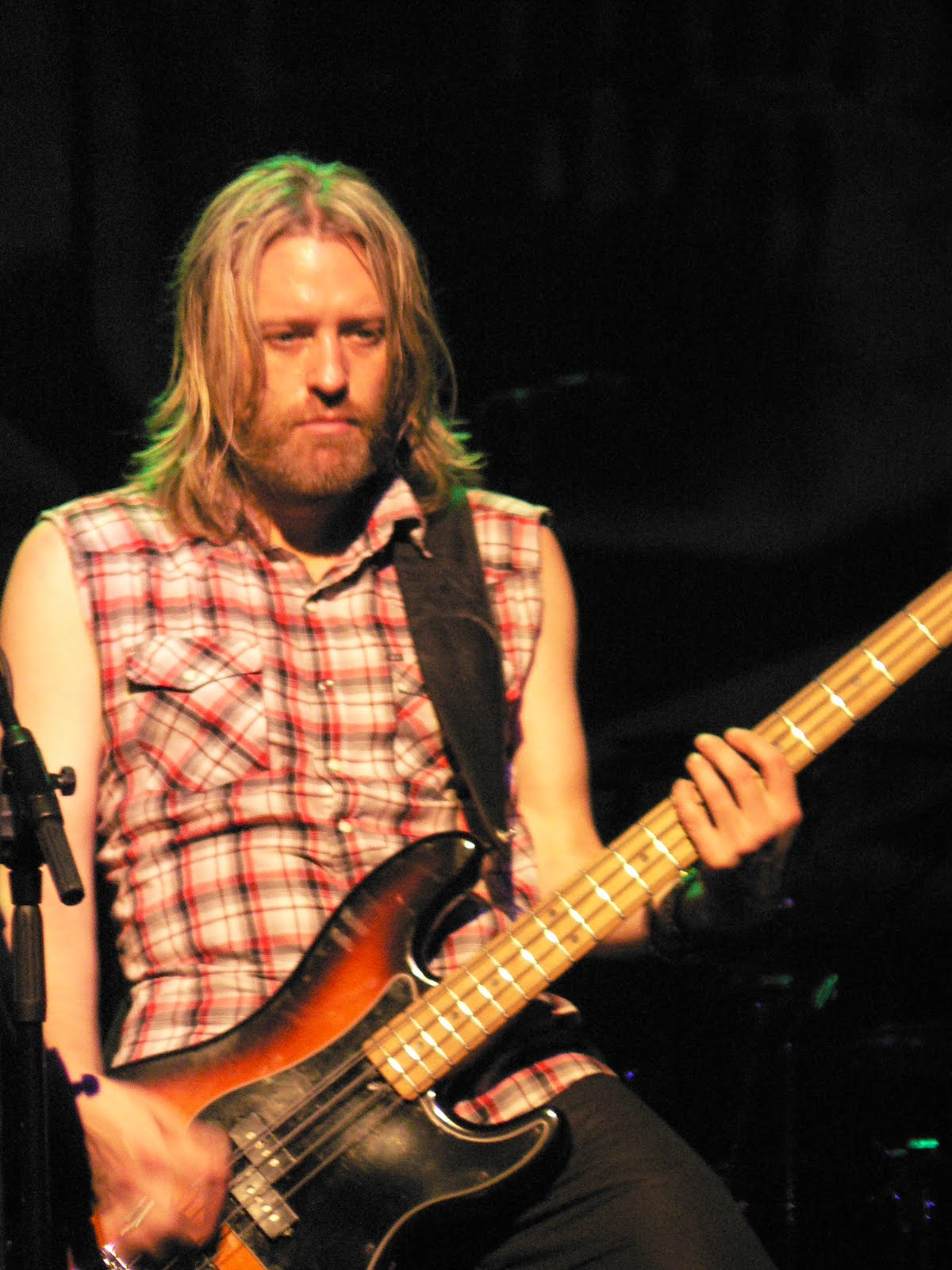 Picture taken by Anna Kweskin at the Fuzz Club in Athens - Greece, 5th of June 2011